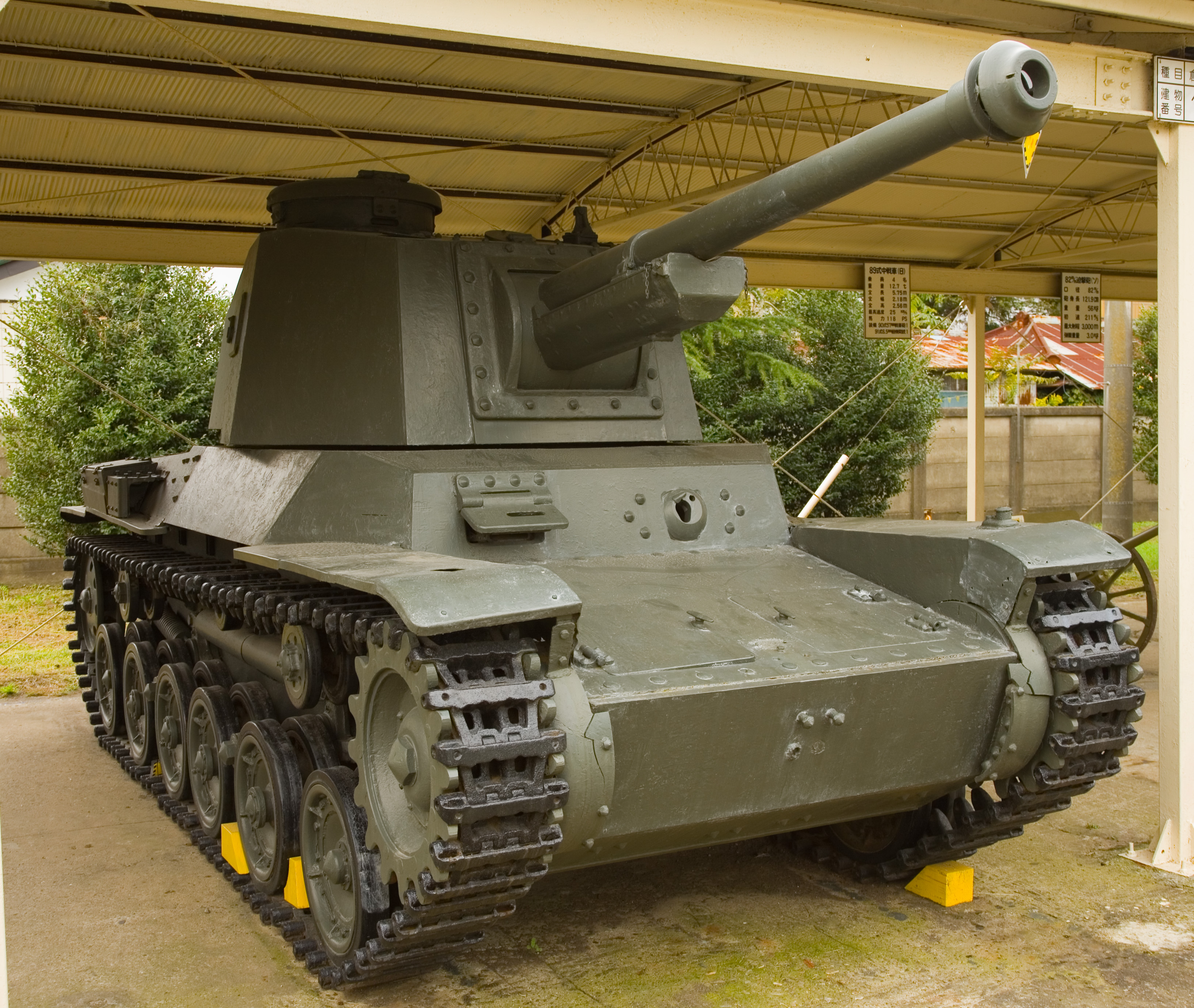 A Japanese World War II era Type 3 "Chi-Nu" Medium Tank at the JGSDF Ordnance School in Tsuchiura, Kanto, Japan.